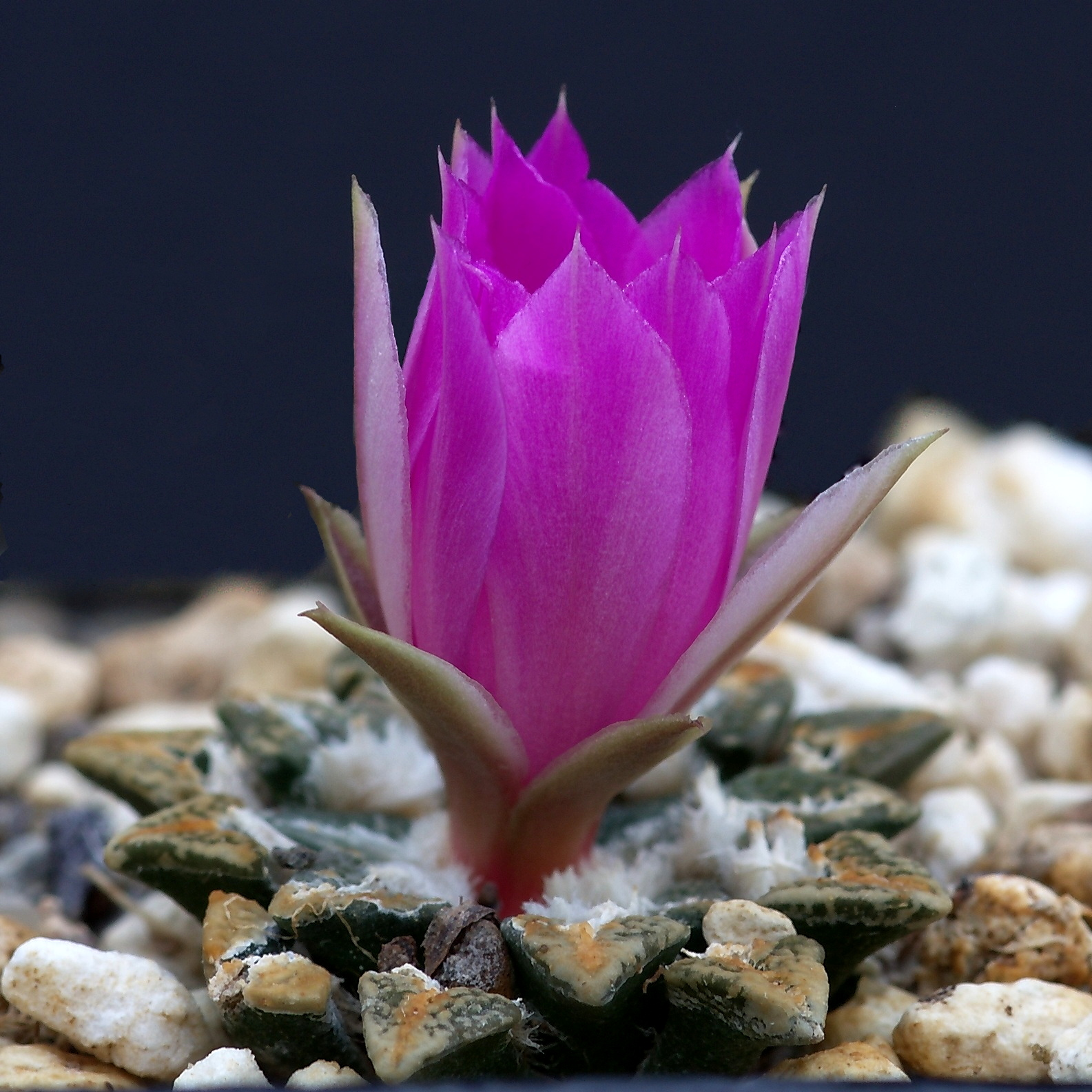 Ariocarpus kotschoubeyanus